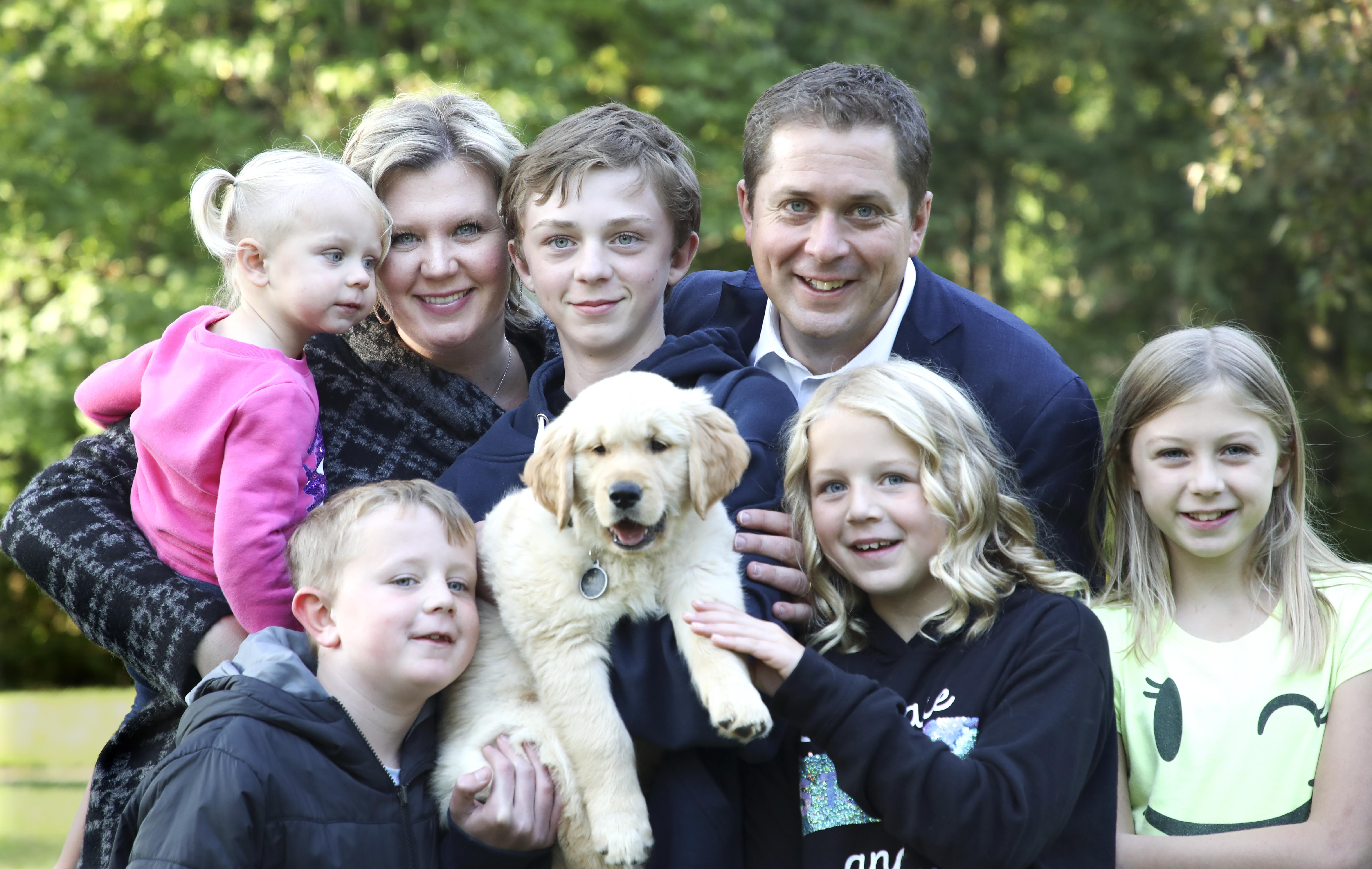 Meet Ray, the newest addition to our family. Ray is short for Raymore, a name the kids picked, after a town in my riding with an outdoor swimming pool that they love.